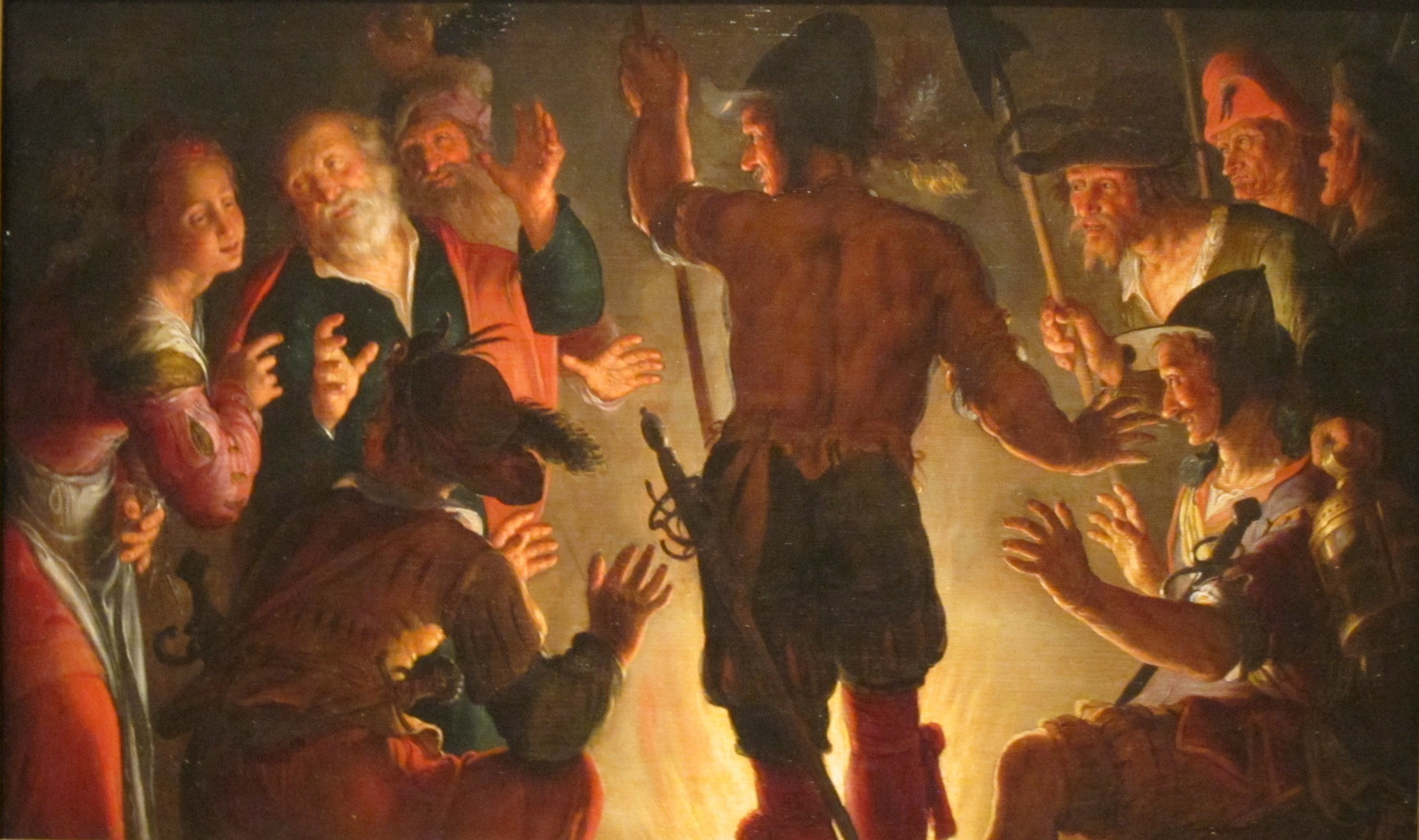 The Denial of Peter